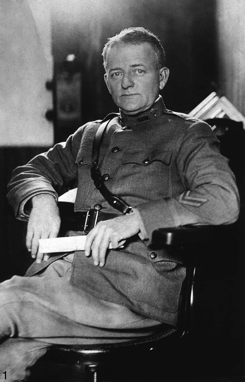 Photo of Colonel Joseph Siler, MD, US Medical Corps, director of the Laboratory Division of the American Expeditionary Forces during World War I.